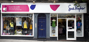 A Sue Ryder shop